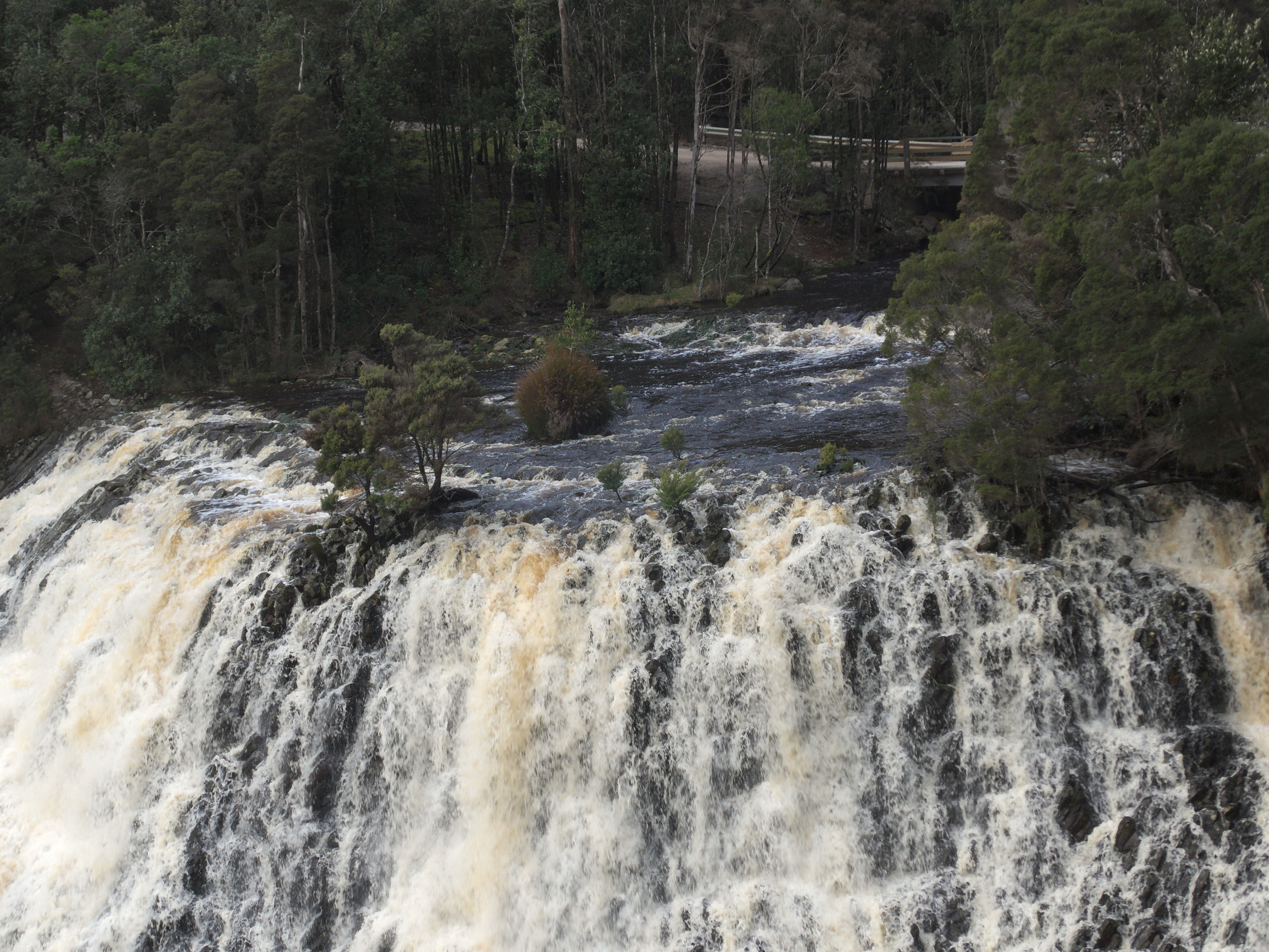 Dip Falls, Mawbanna, Tasmania, as seen from the upper viewing platform.